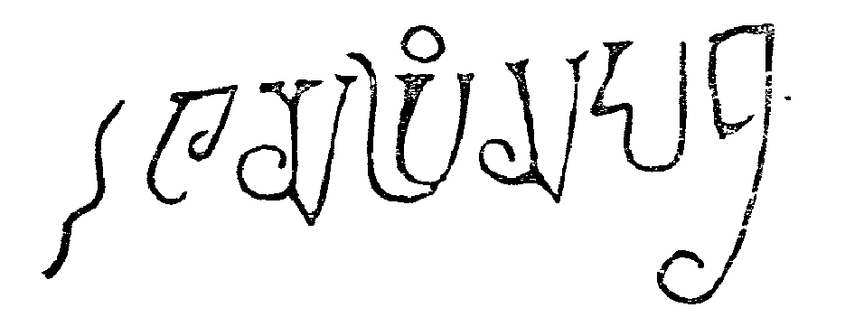 Inscription on the left jamb of the door of an ancient temple at Gop, Gujarat, India